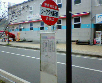 Iwateken Kotsu Sea-plaza-Kamaishi-mae Bus Stop in Kamaishi City, Iwate Prefecture, Japan